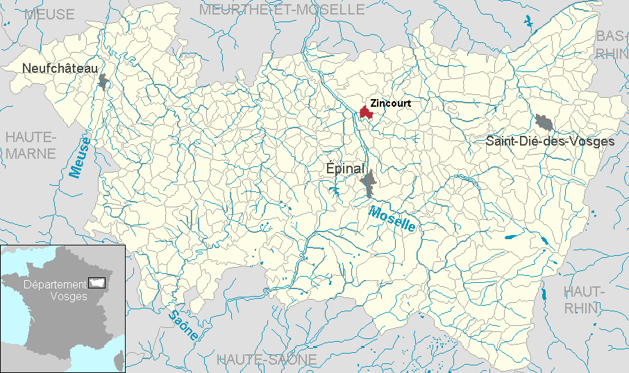 Zincourt in the department of Vosges, Lorraine, France